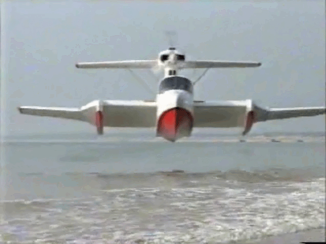 Sea Eagle Flying